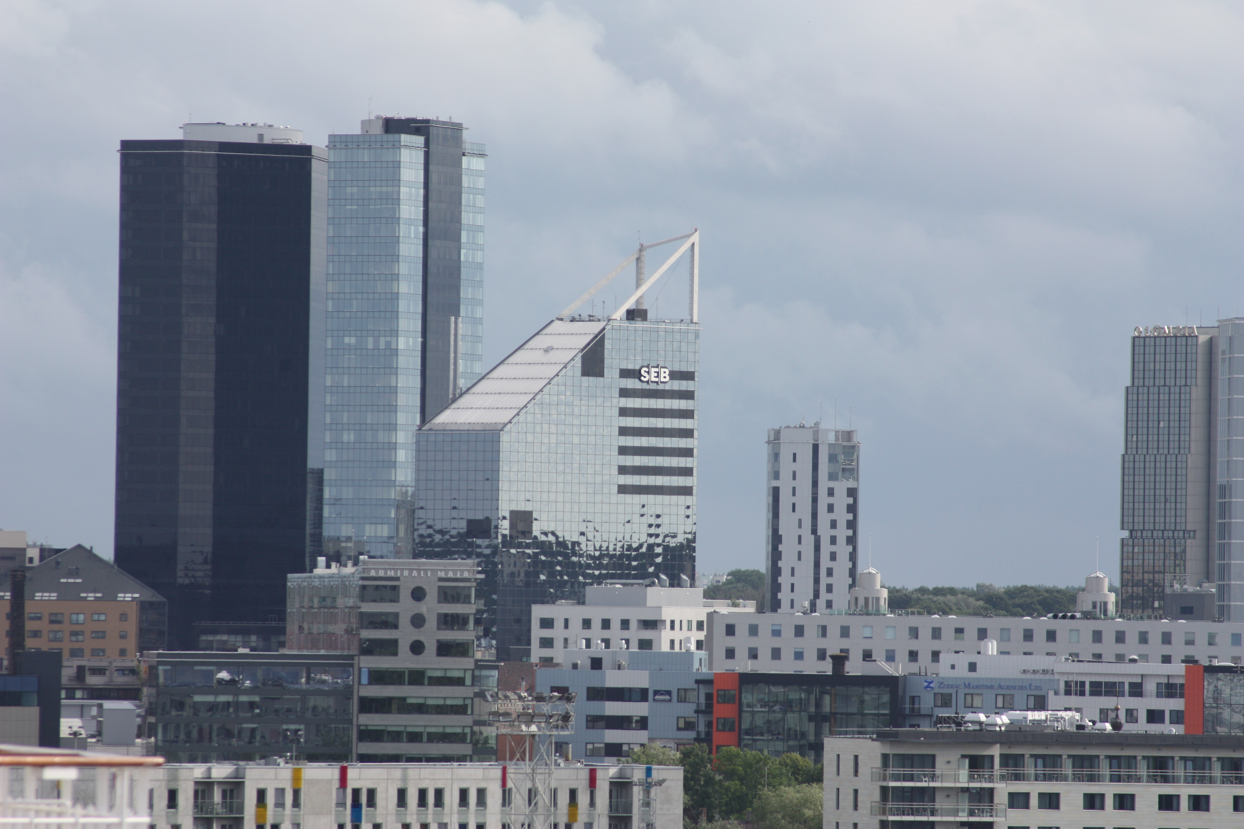 View to Maakri